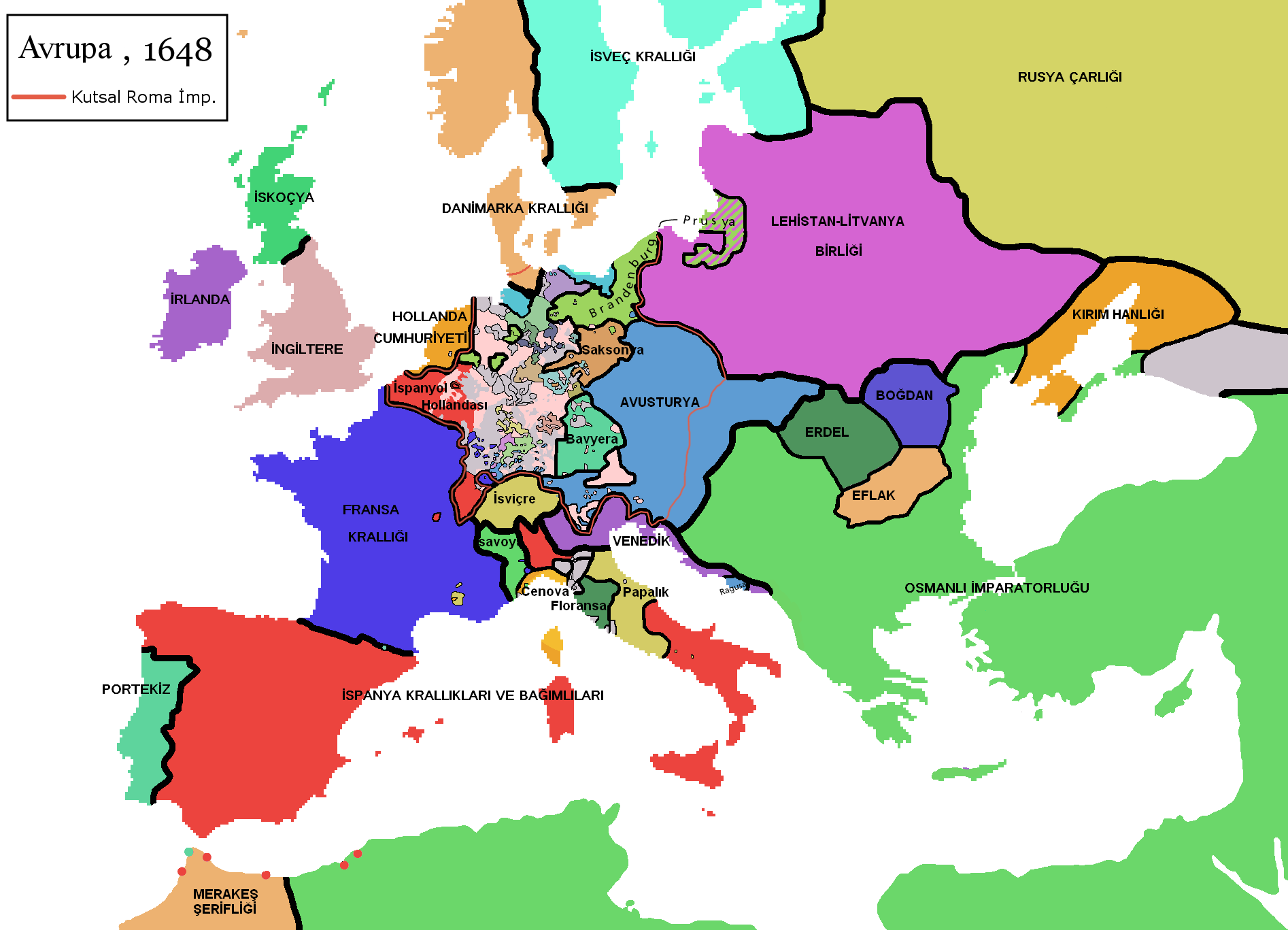 ==Turkish version of File:Europe map 1648.PNG